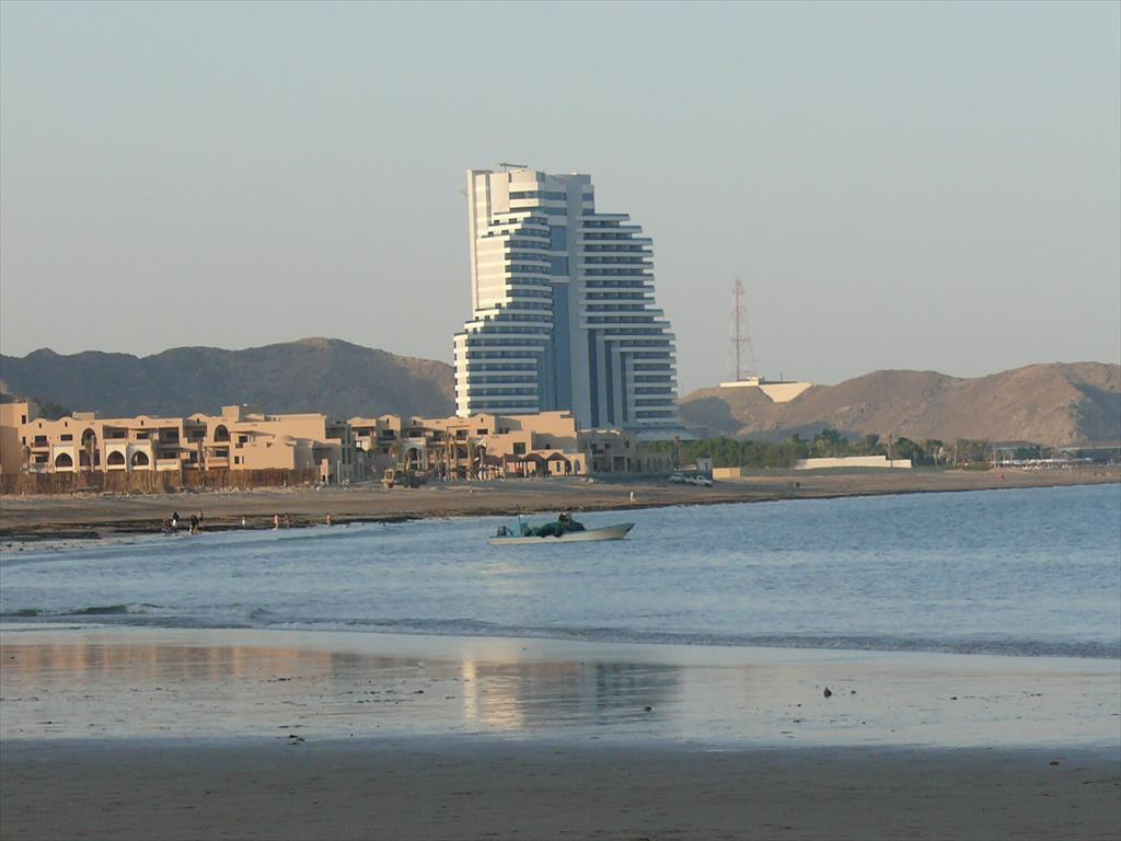 This is a photo of a beach in Fujairah, United Arab Emirates on 27 October 2007. The building seen dominating the skyline is the Le Méridien Al Aqah Beach Resort.